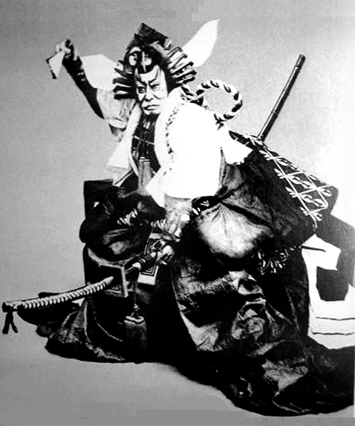 Danjūrō Ichikawa IX as Kamakura Gongorō Kagemasa in the November 1895 production of Shibaraku at Tokyo Kabukiza.